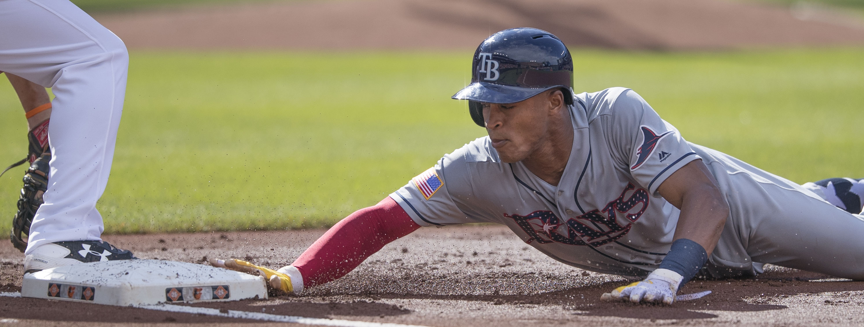 Rays at Orioles 7/1/17